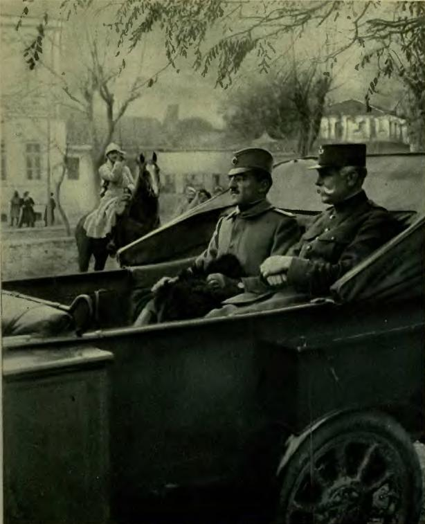 Prince Alexander of Serbia and French general Sarrail at Monastir (Bitola), 1917.